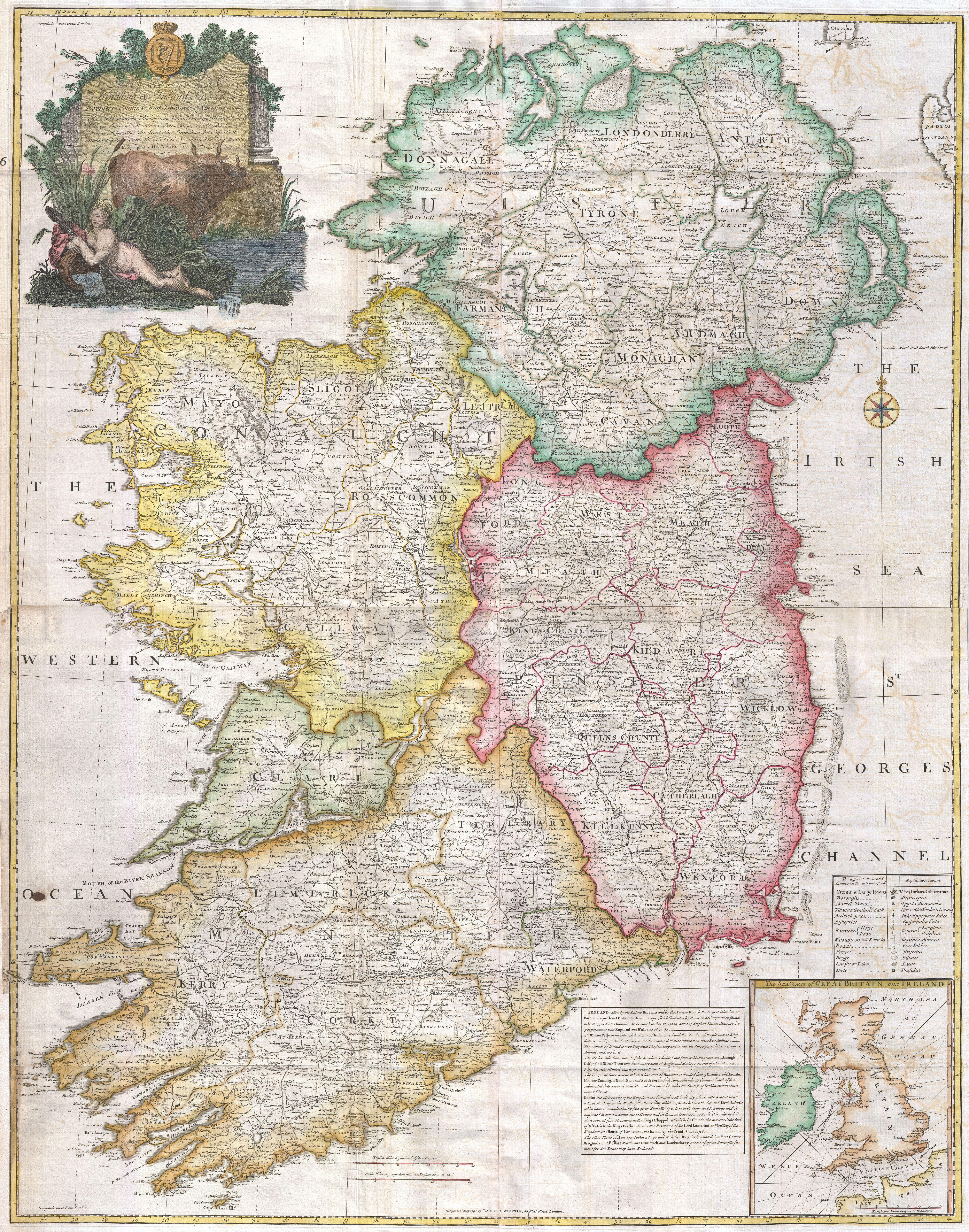 An absolutely stunning and monumental 1794 wall map of Ireland by Jean Rocque. Covers Ireland in full with extraordinary detail throughout. Notes every town, hamlet, bishopric, country, forest, castle swam and road. Even offers some offshore detail with regard to the shoals in Georges Channel. In inset map in the lower right quadrant shows Ireland in the context of the British Isles. An elaborate title cartouche in the upper left quadrant shows the Irish Harp over two pensive bovines and a demurely positioned unclothed maiden. Published by Laurie and Whittle as plate nos. 9-10 in the 1797 edition of Thomas Kitchin's General Atlas .